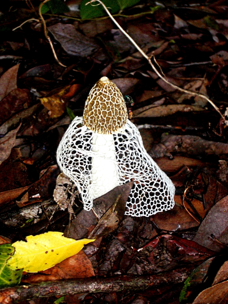 I took this photo in my backyard near Cooktown, Queensland, Australia in 2010